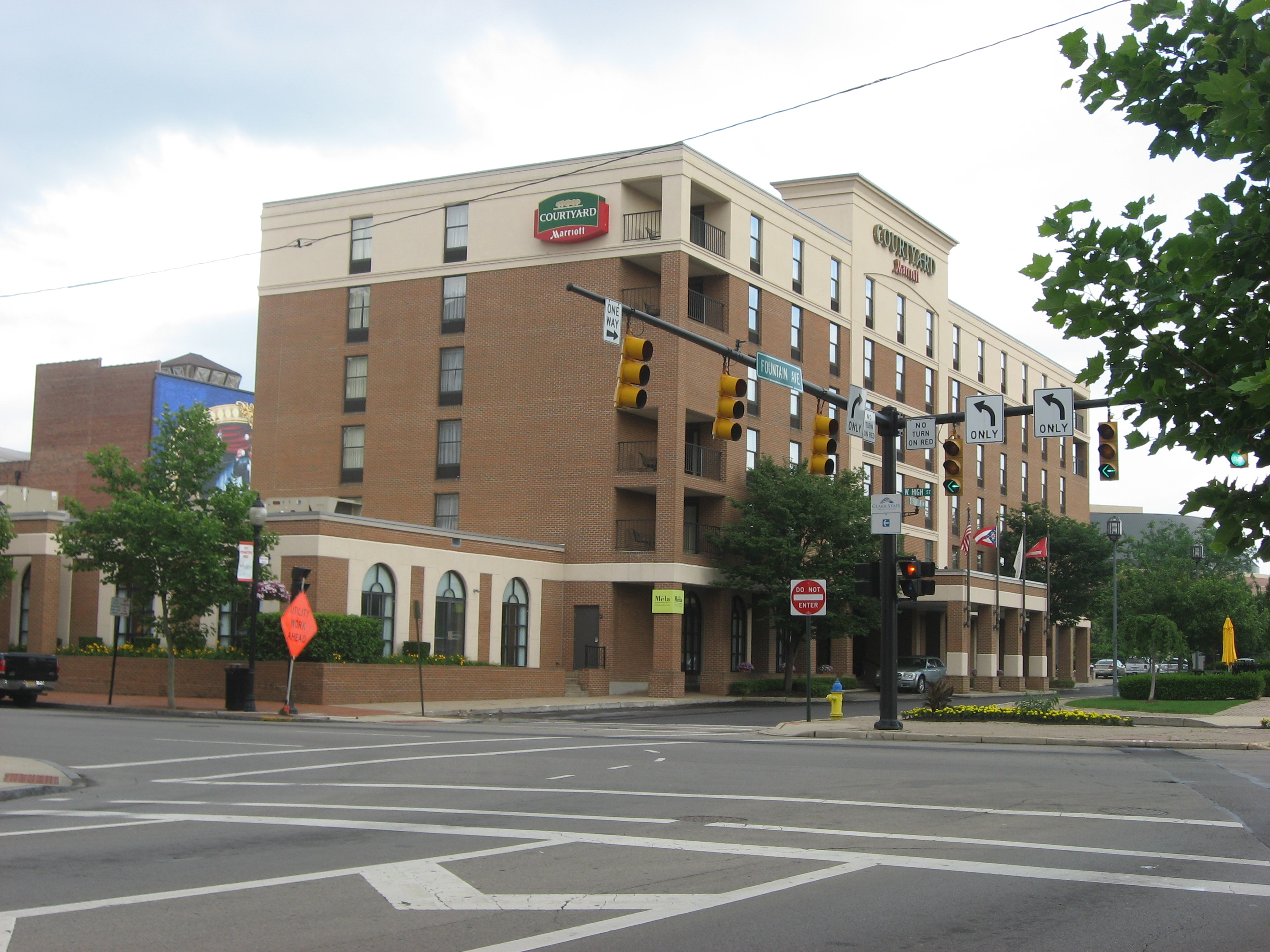 Northern and western sides of a Courtyard by Marriott on the southeastern corner of High Street and Fountain Avenue in downtown Springfield, Ohio, United States. It occupies the site of the Arcade Hotel, which was built in 1883 and listed on the National Register of Historic Places in 1974. The site remains on the Register, even though the original hotel has been destroyed.